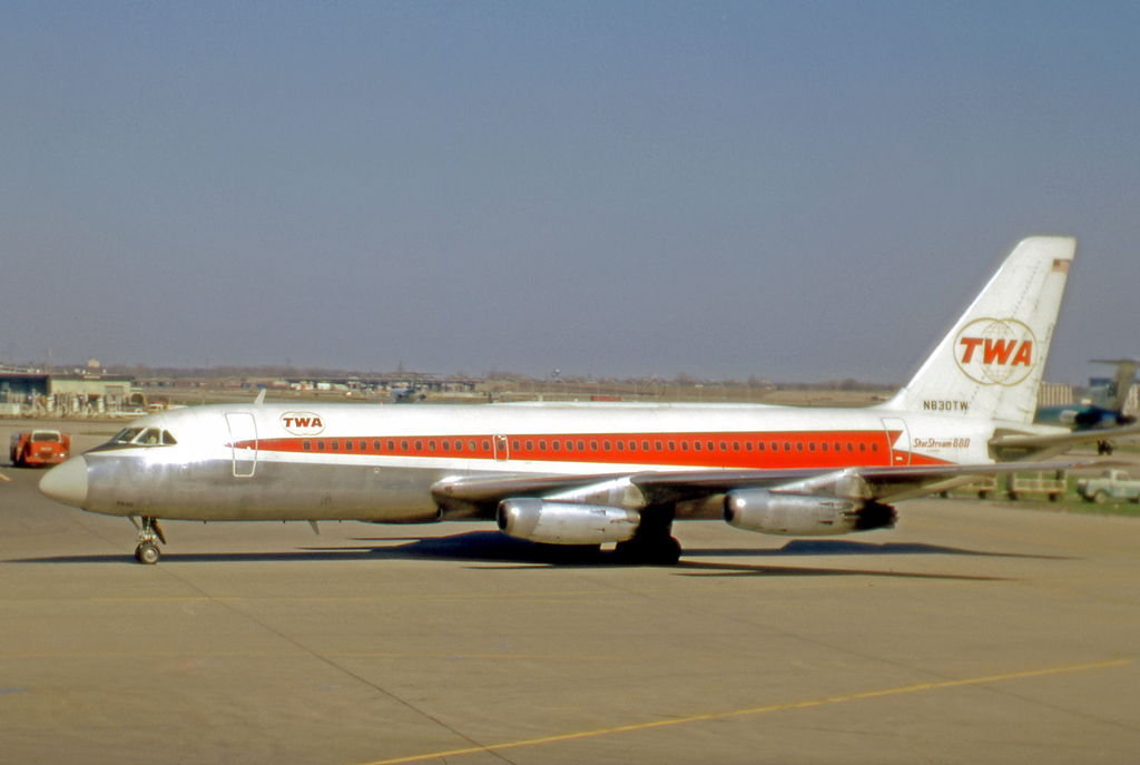 Convair 880 N830TW of Trans World Airlines operating a scheduled service at Chicago O'Hare Airport in 1971.